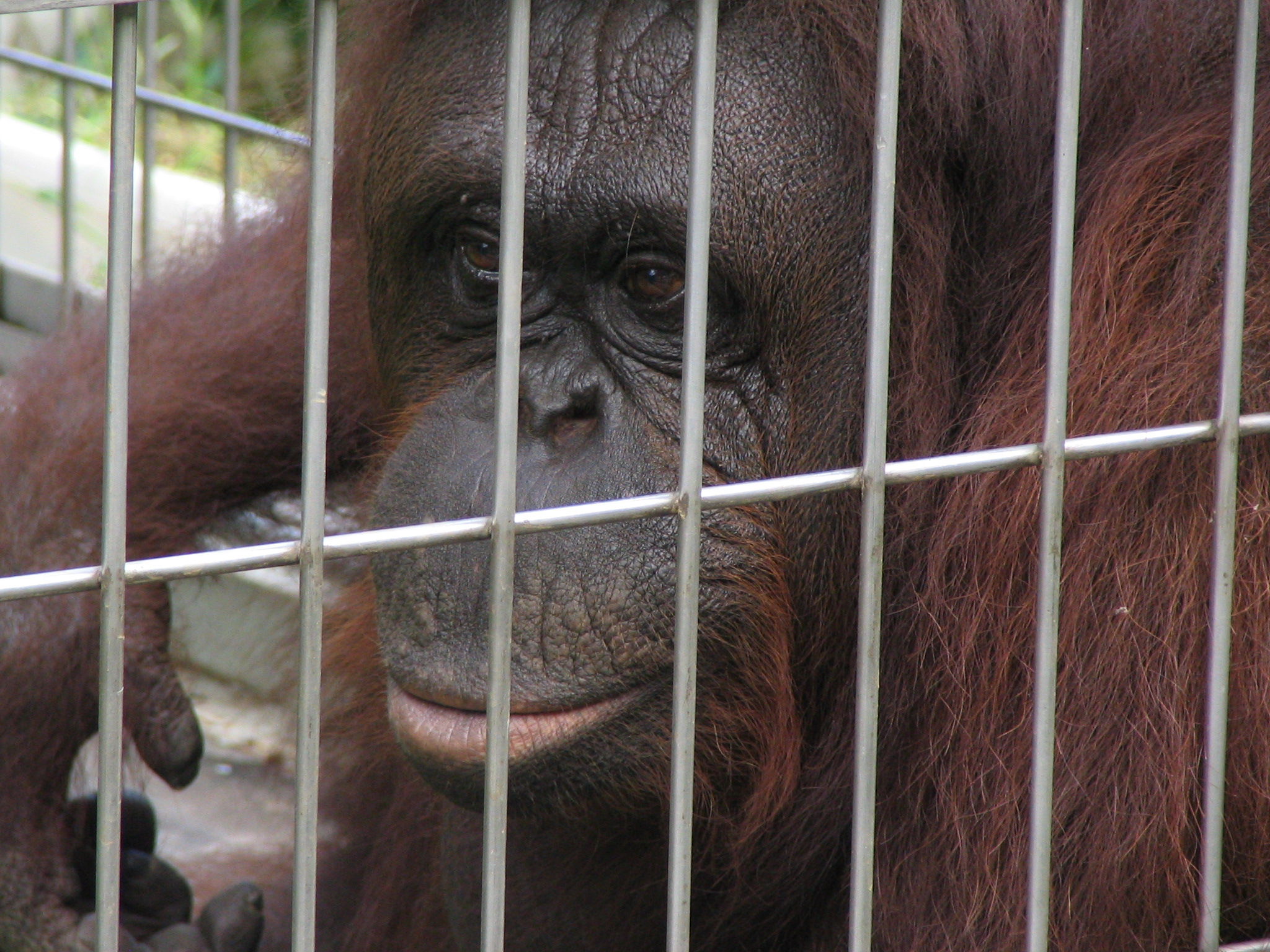 "Satsuki" Bornean orangutan, Tennoji Zoo, Osaka, Japan.